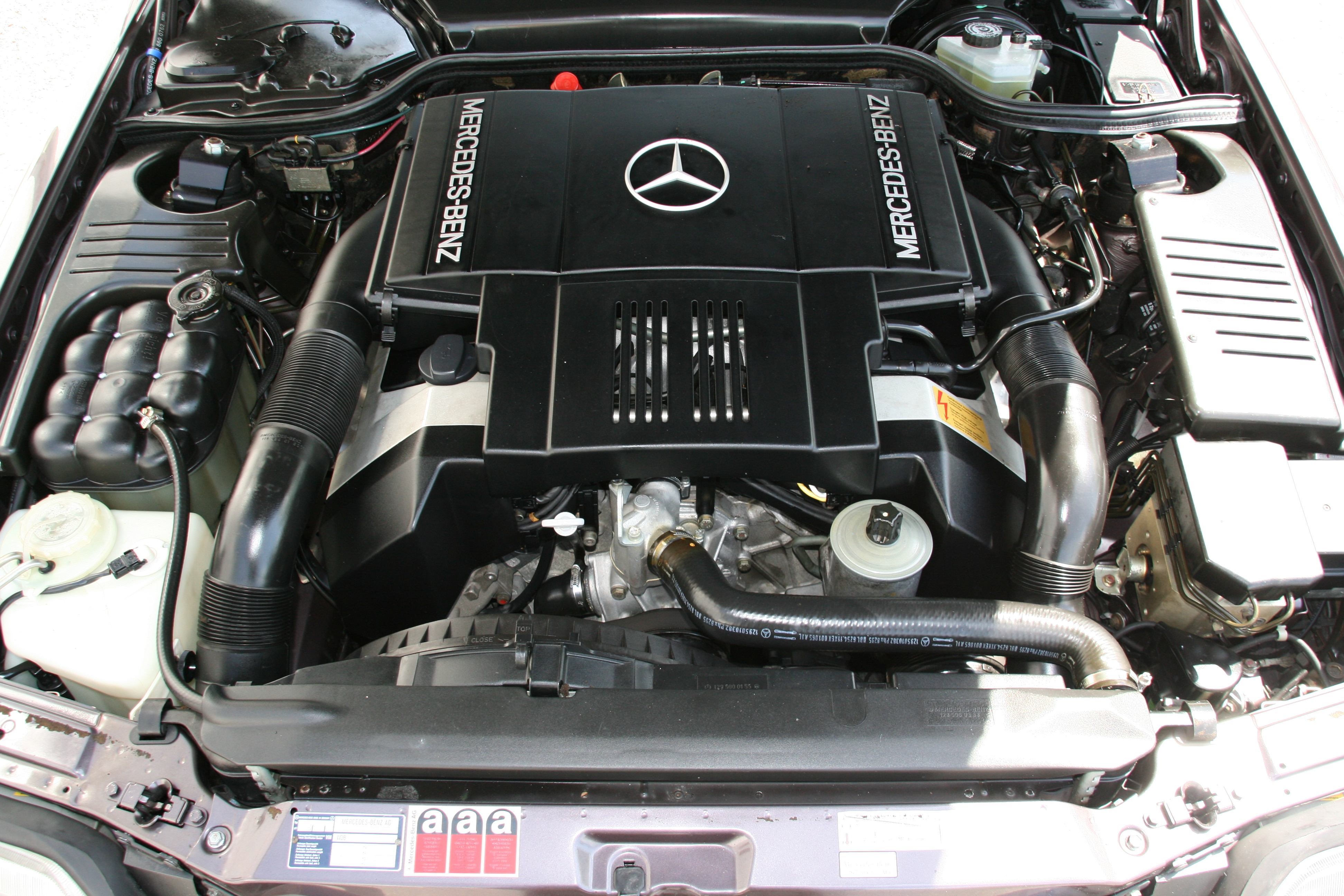 1993 Mercedes Benz 500SL V8 Engine